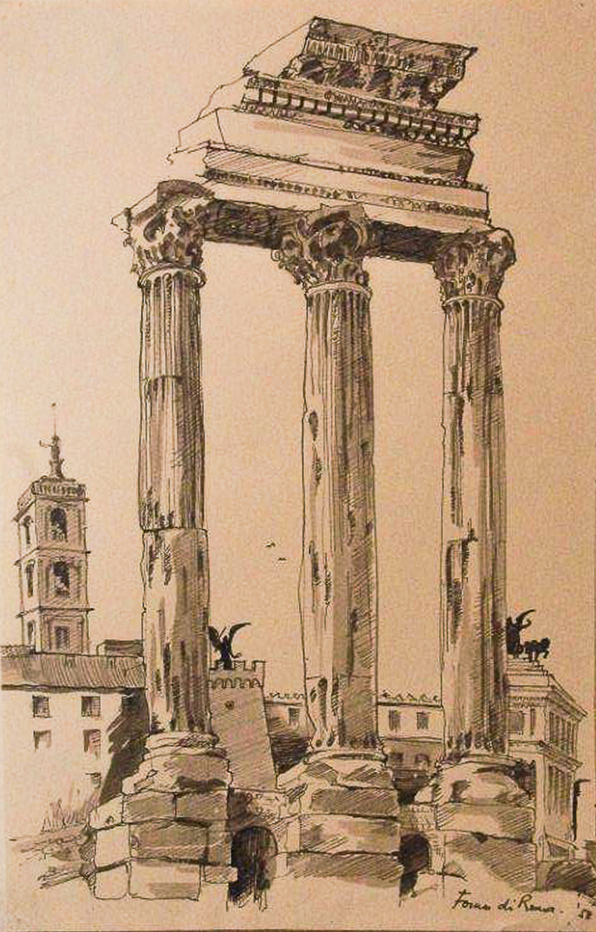 Ink pen and wash drawing of the Roman forum by Ian Sprague 1958; photographed in a private collection at Enfield Victoria